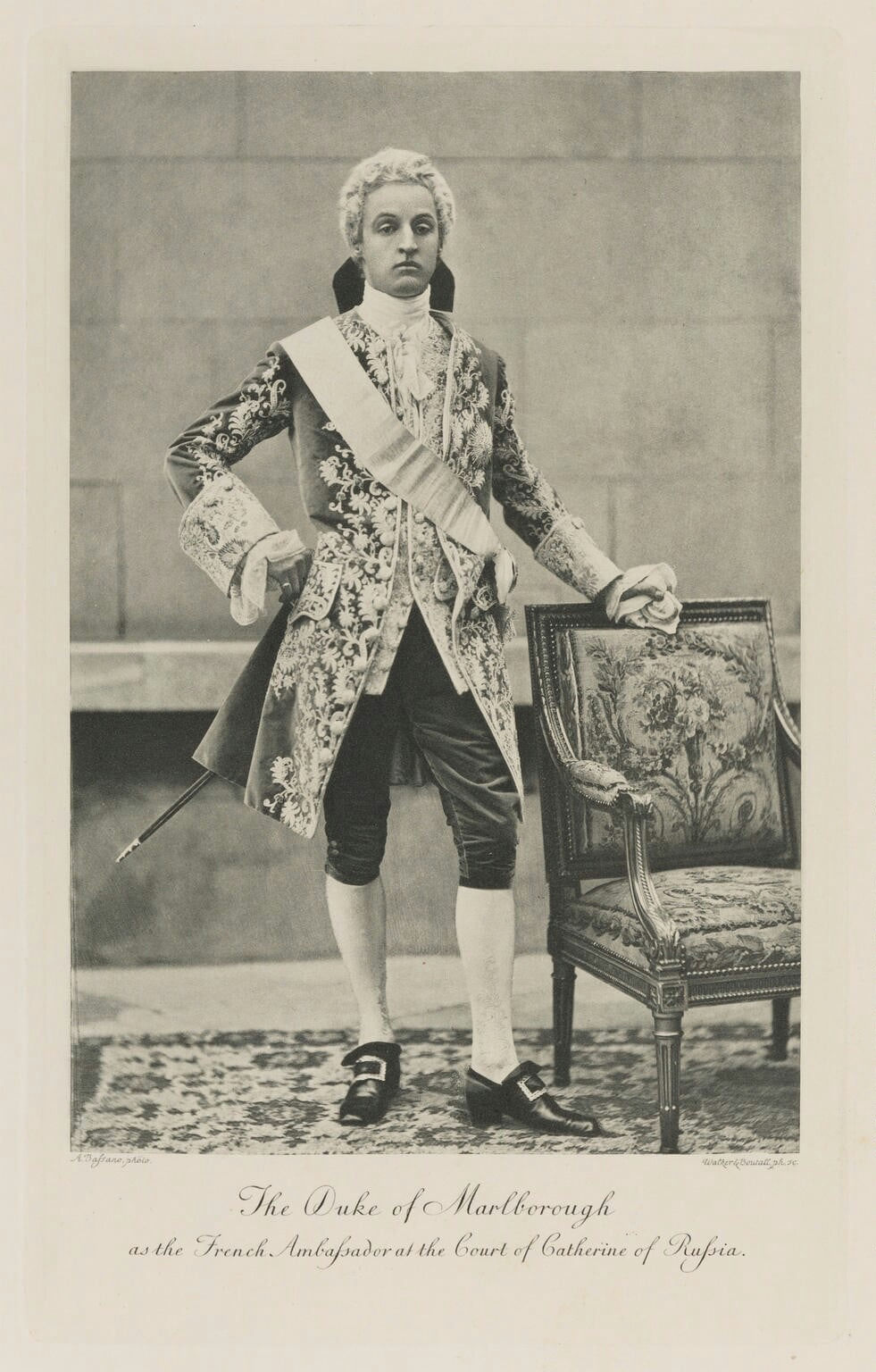 Photograph of Charles Spencer-Churchill, 9th Duke of Marlborough as the French Ambassador at the Court of Catherine of Russia at the Devonshire House Ball of 1897